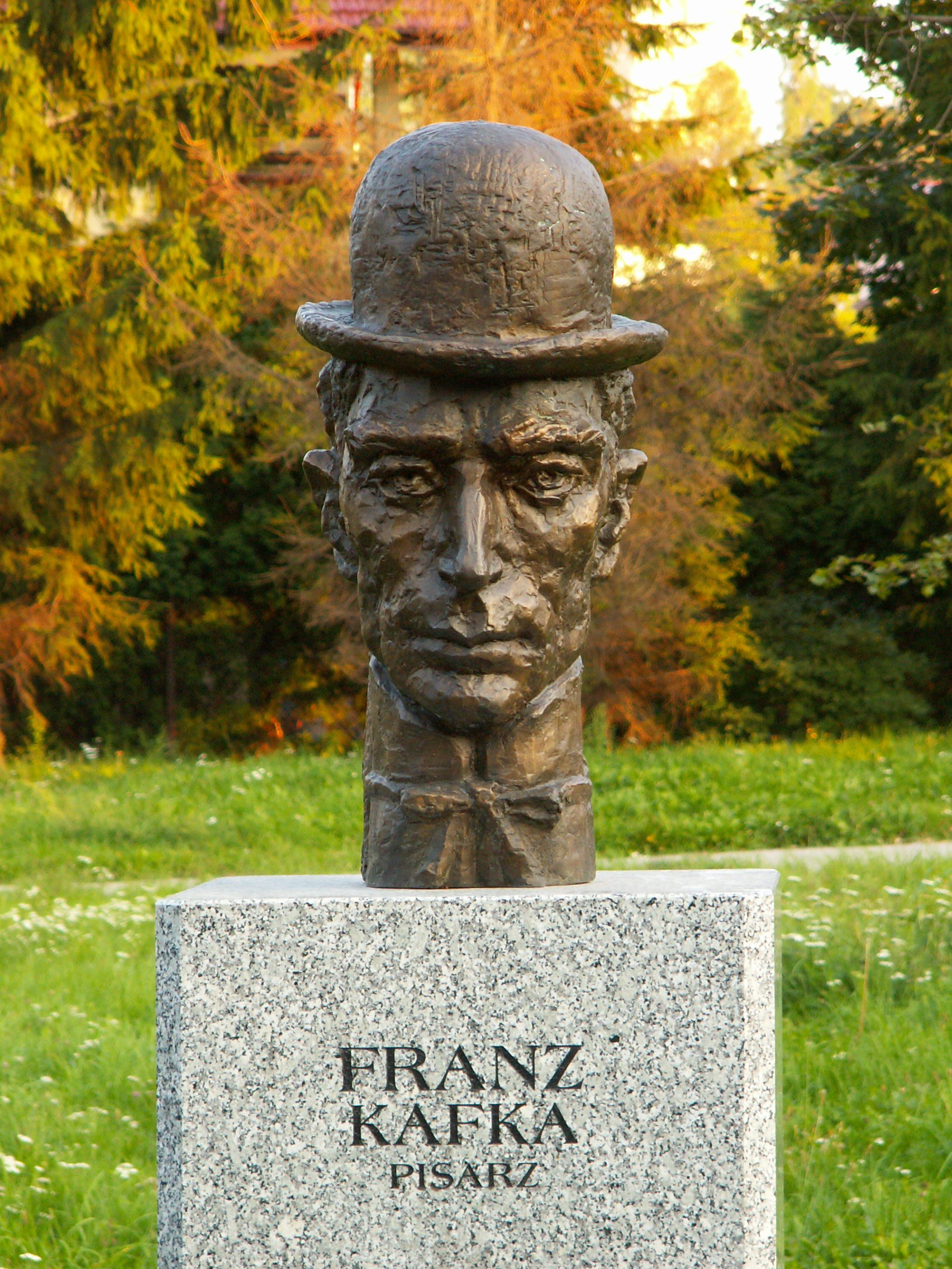 Bust of Franz Kafka in Celebrity Alley in Kielce (Poland)